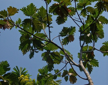 Artocarpus altilis (seeded breadfruit) tree from Darmaga, Bogor, West Java, Indonesia